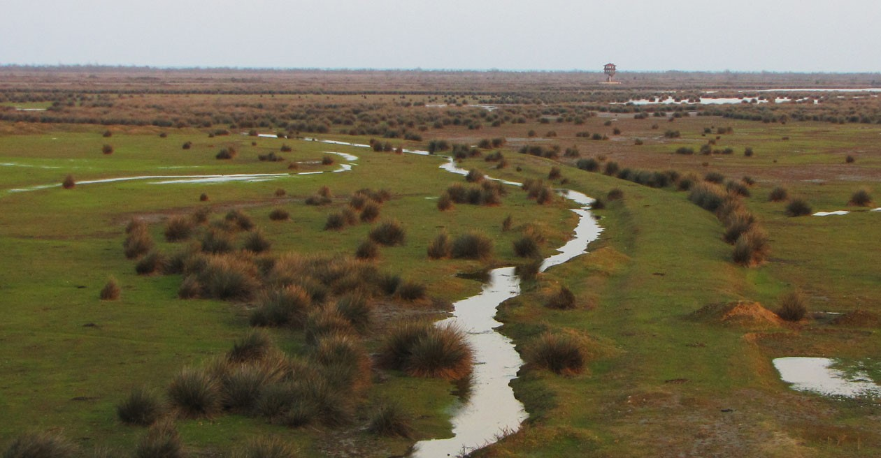 Wetland marsh ecosystem at Kızılırmak Delta